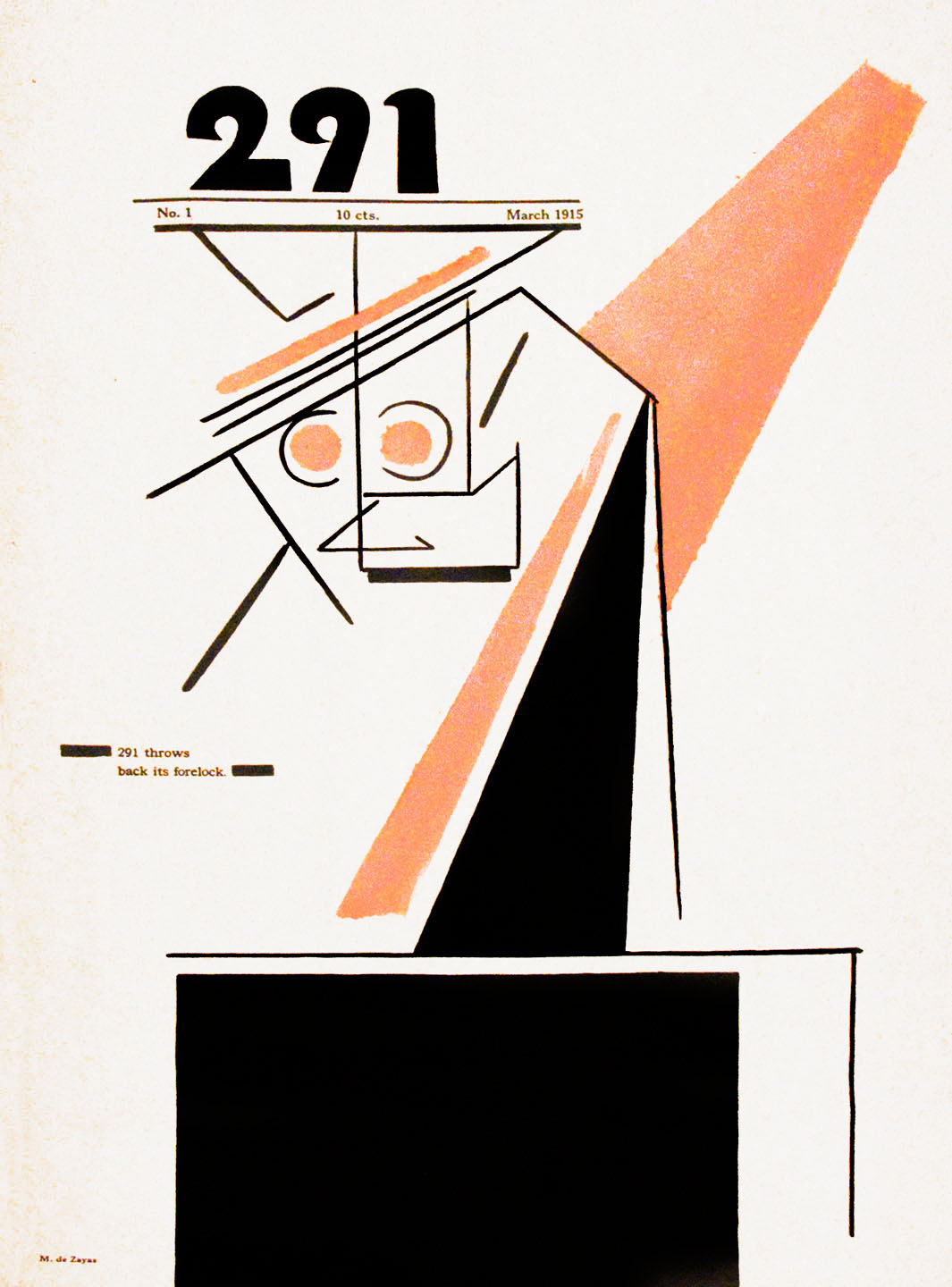 "291 Throws Back Its Forelock", by Marius de Zayas. Cover of the art magazine 291, first issue, 1915.